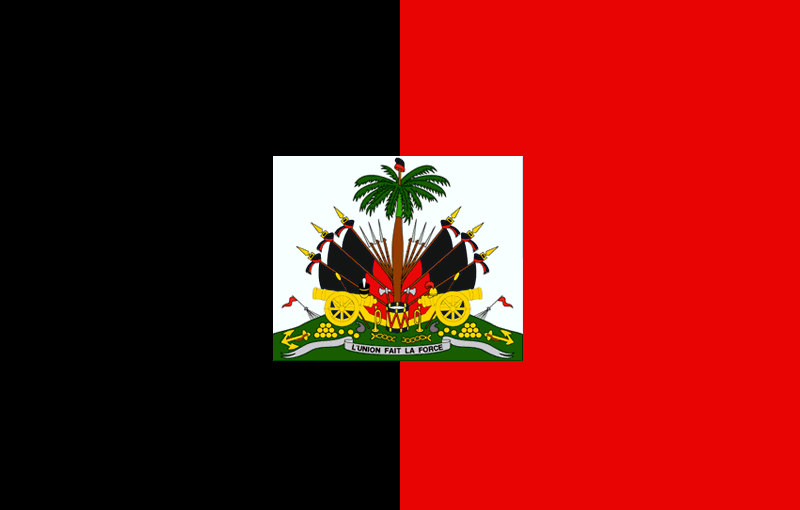 Haitian flag during Duvalier's rule (1964-1986)